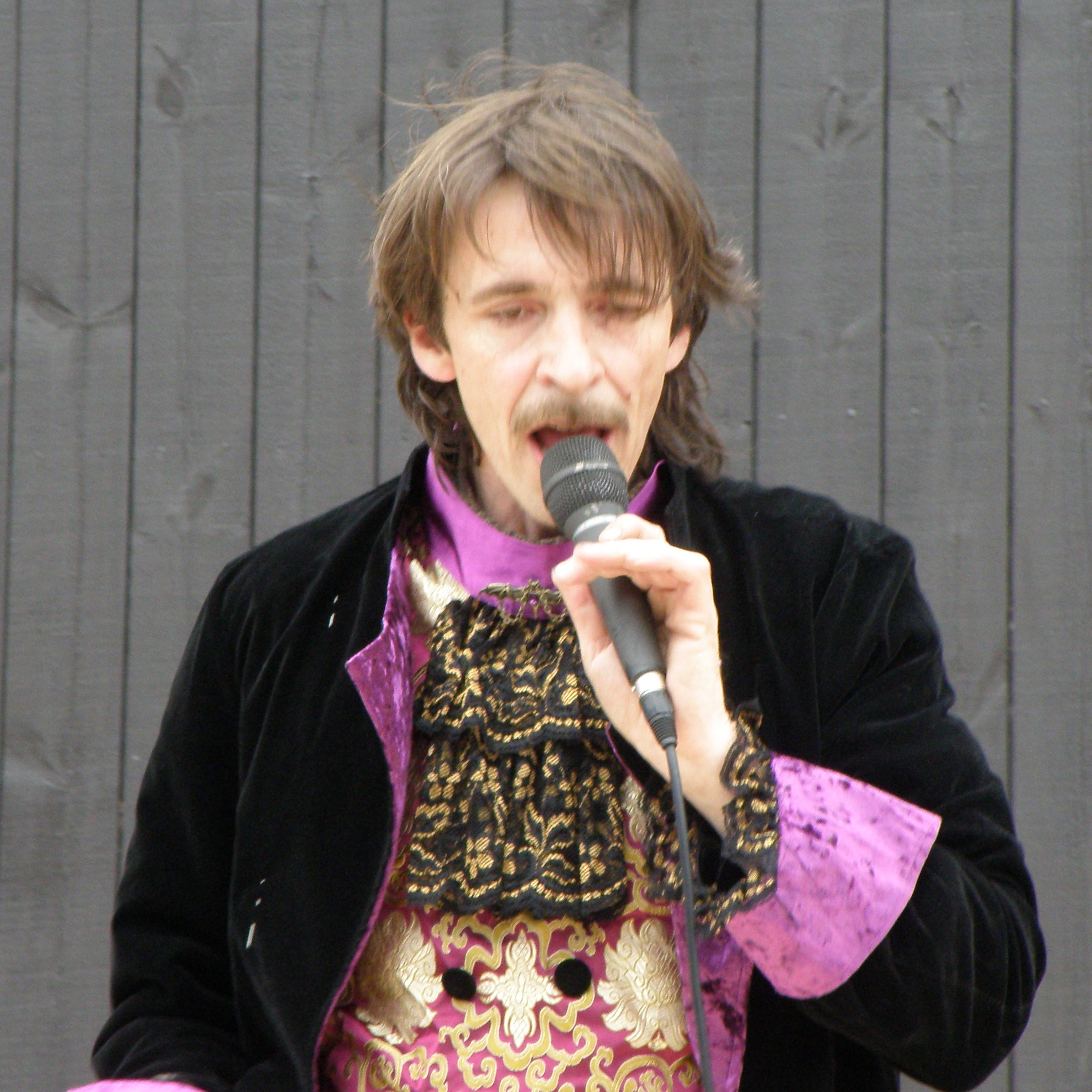 Johan Dalsgaard (also called Jóhan í Kollafirði). This photo was taken at the Jóansøka festival in Tvøroyri in June 2011. He is an entertainer, musician and actor. Once he was founded his own political party "Hin stuttligi flokkurin" (The Funny Party) and ran for Parliament (Løgtingið). Føroyskt: Jóhan í Kollafirði, alias Johan Dalsgaard. Myndin er tikin á Jóansøku 2011, tá hann undirhelt á kaiøkinum.